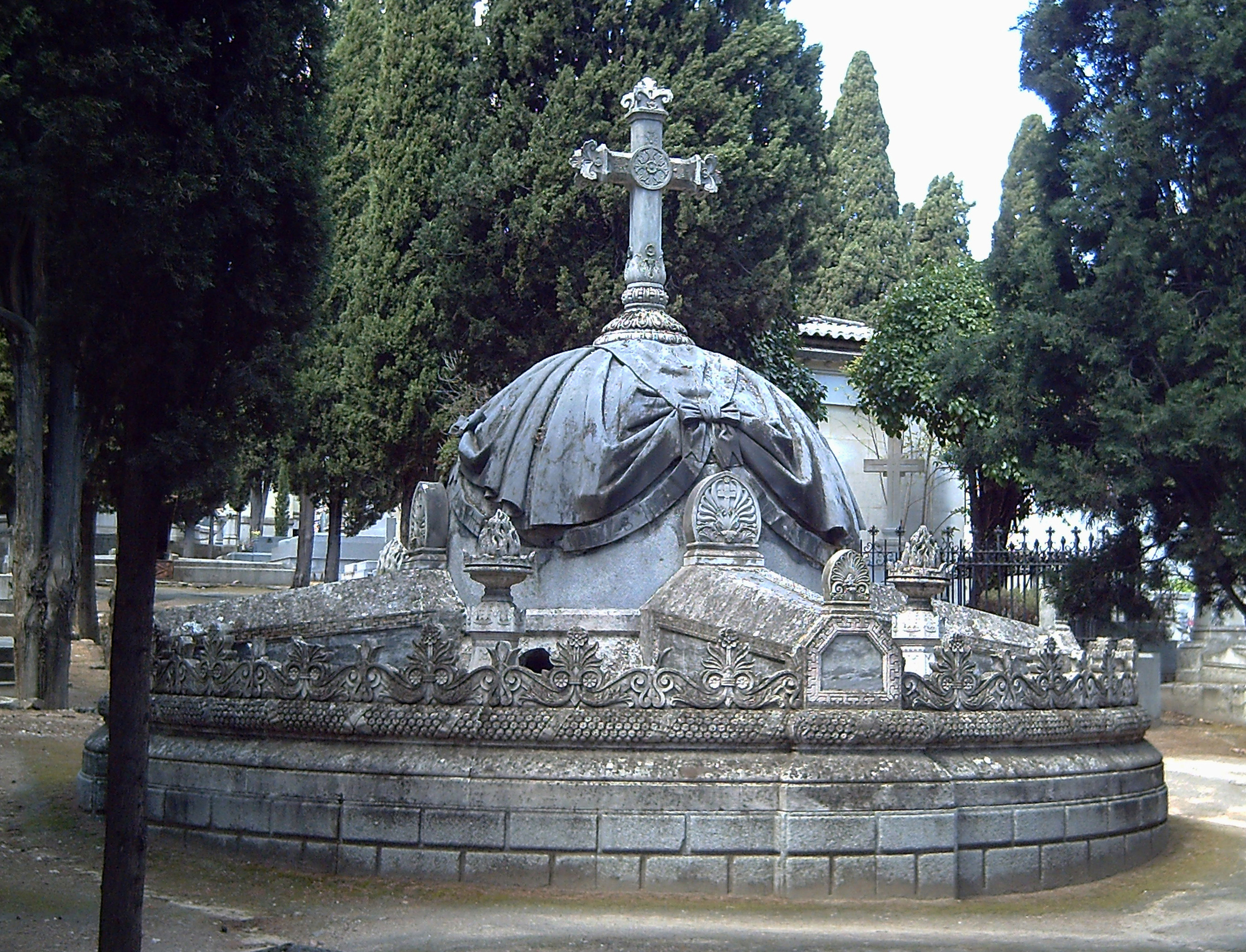 View of the Maroto family's pantheon at San Isidro graveyard in Madrid (Spain). Designed by Félix María Gómez (†1881) and made of stone and marble.